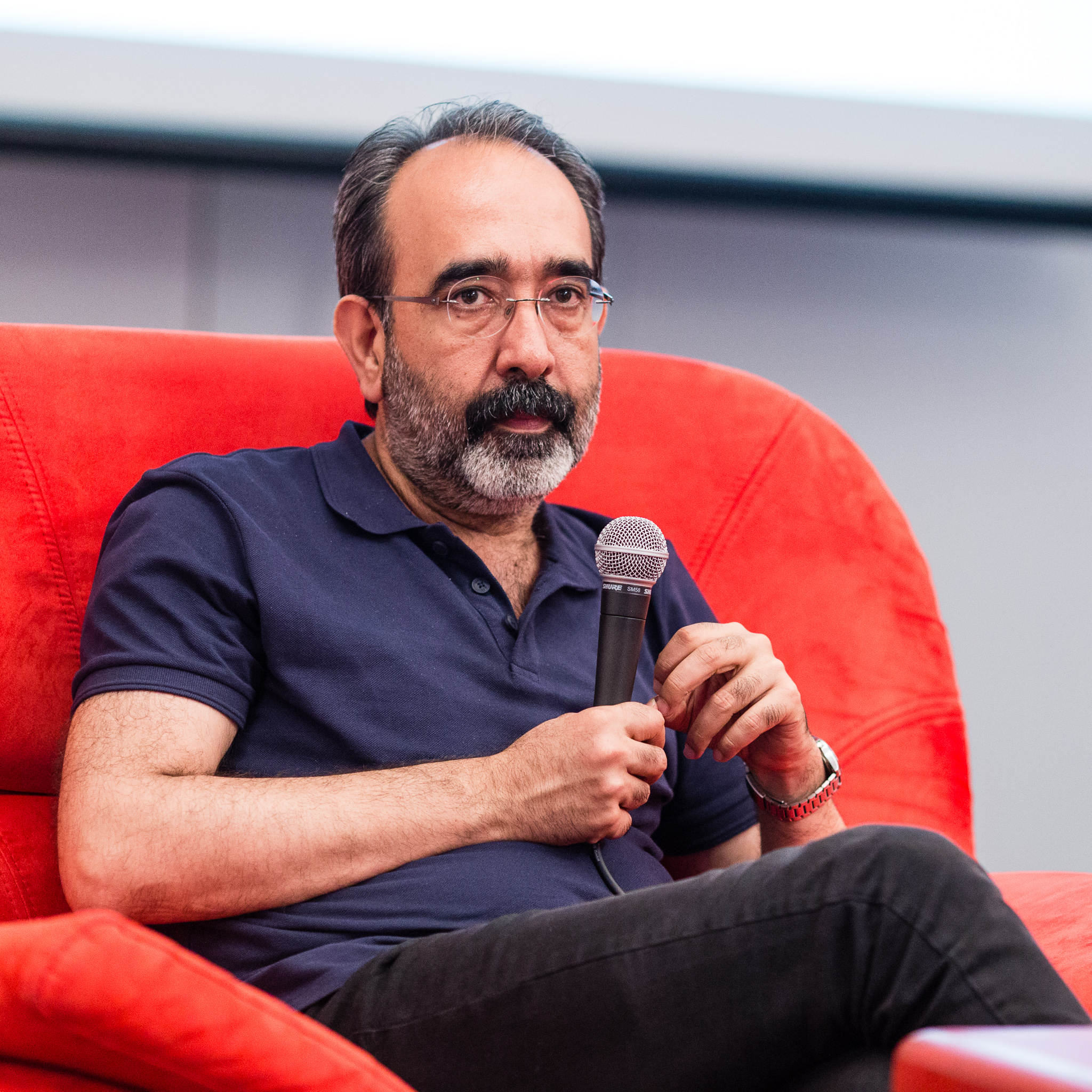 Behçet Çelik on Authors’ Reading Month 2018, Wrocław, Poland